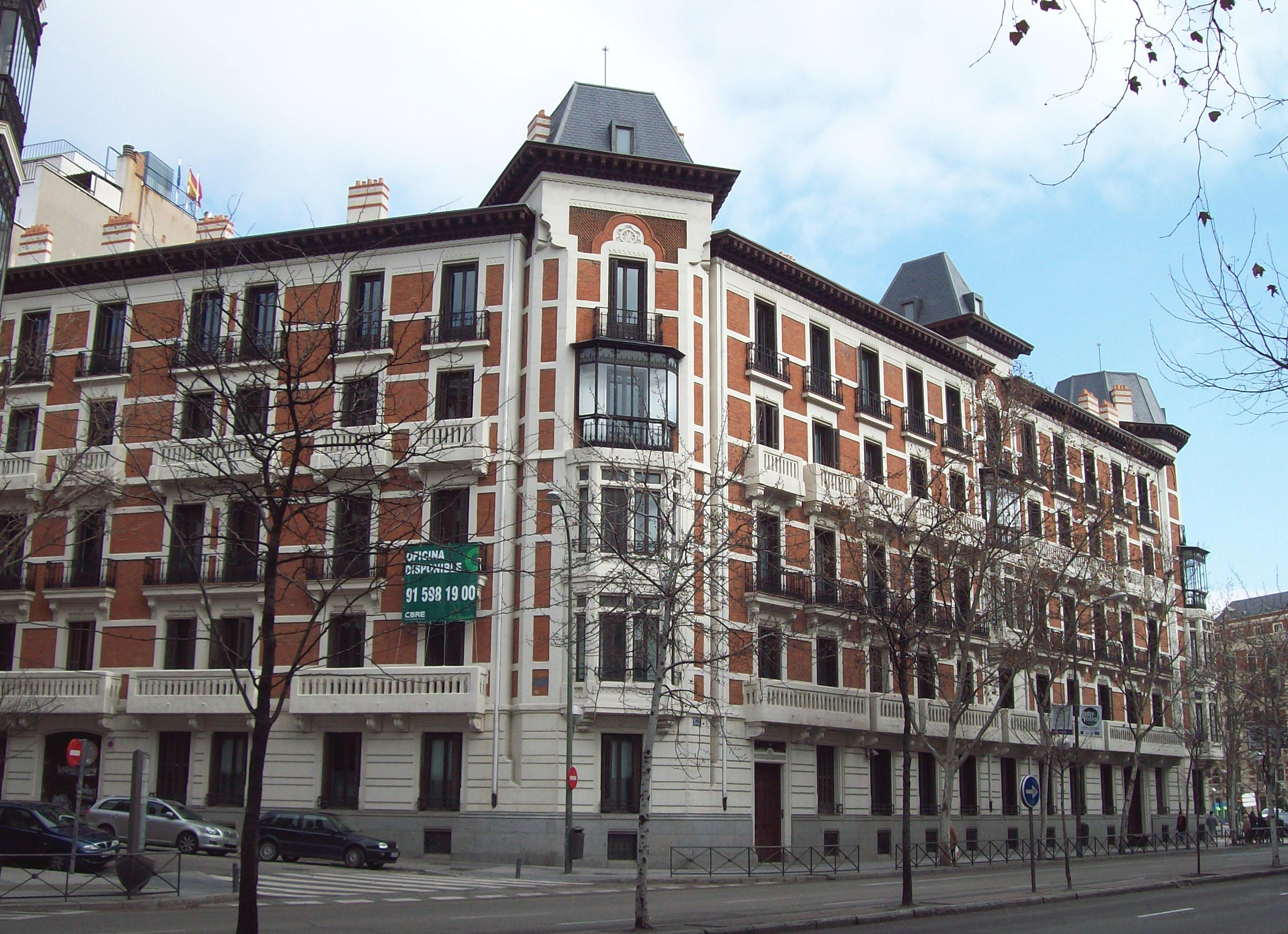 Building at 31-33 Calle de Sagasta (street) in Centro district in Madrid (Spain). It was designed in 1899 by Luis de Landecho and built from 1899 to 1901.